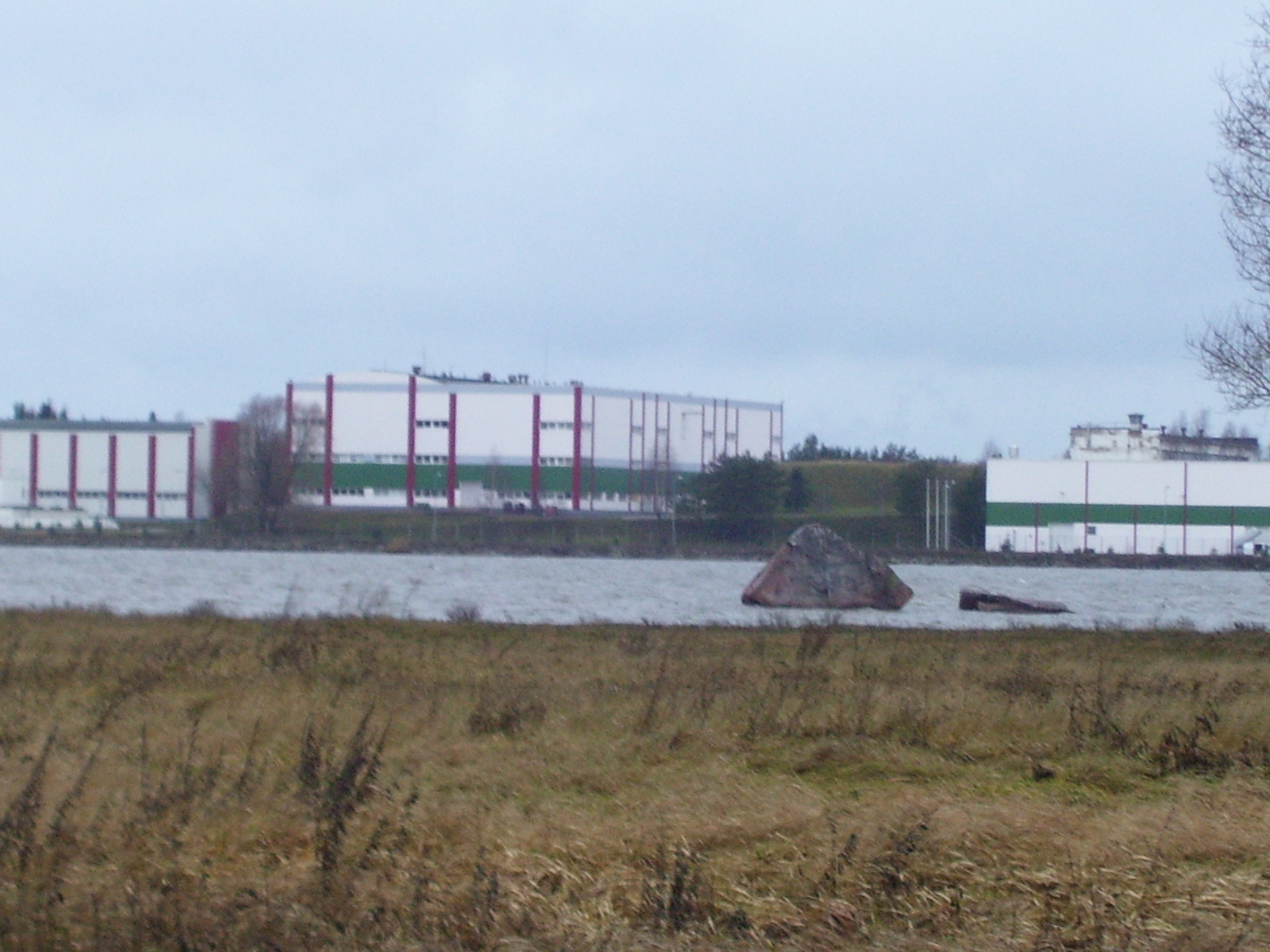 The "Linda kivi" ("Linda's Stone") in the Lake of Ülemiste, Estonia